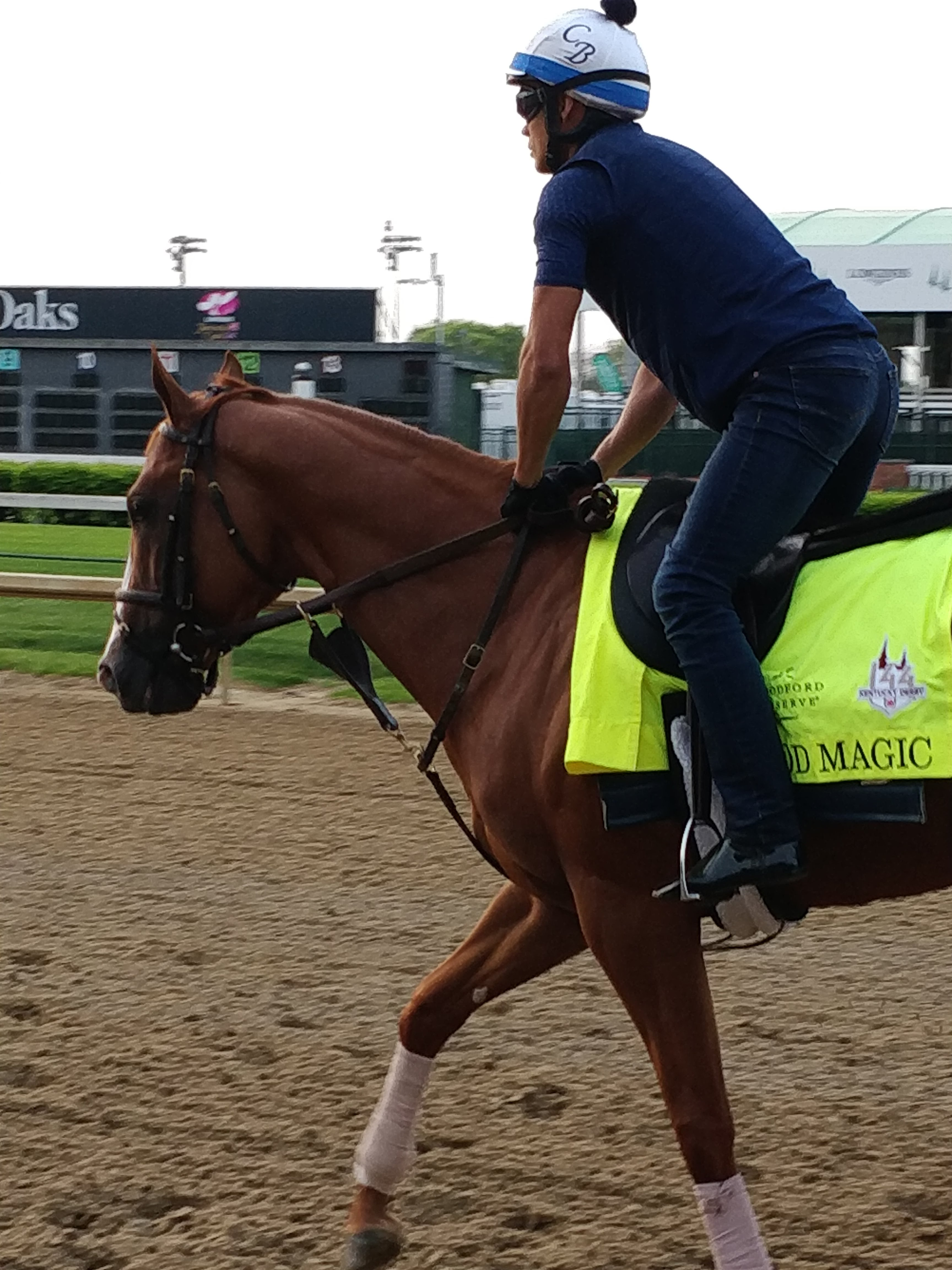 Pre kentucky Derby Workout - Good Magic Feel free to use this photo however you like, just attribute . Thanks!